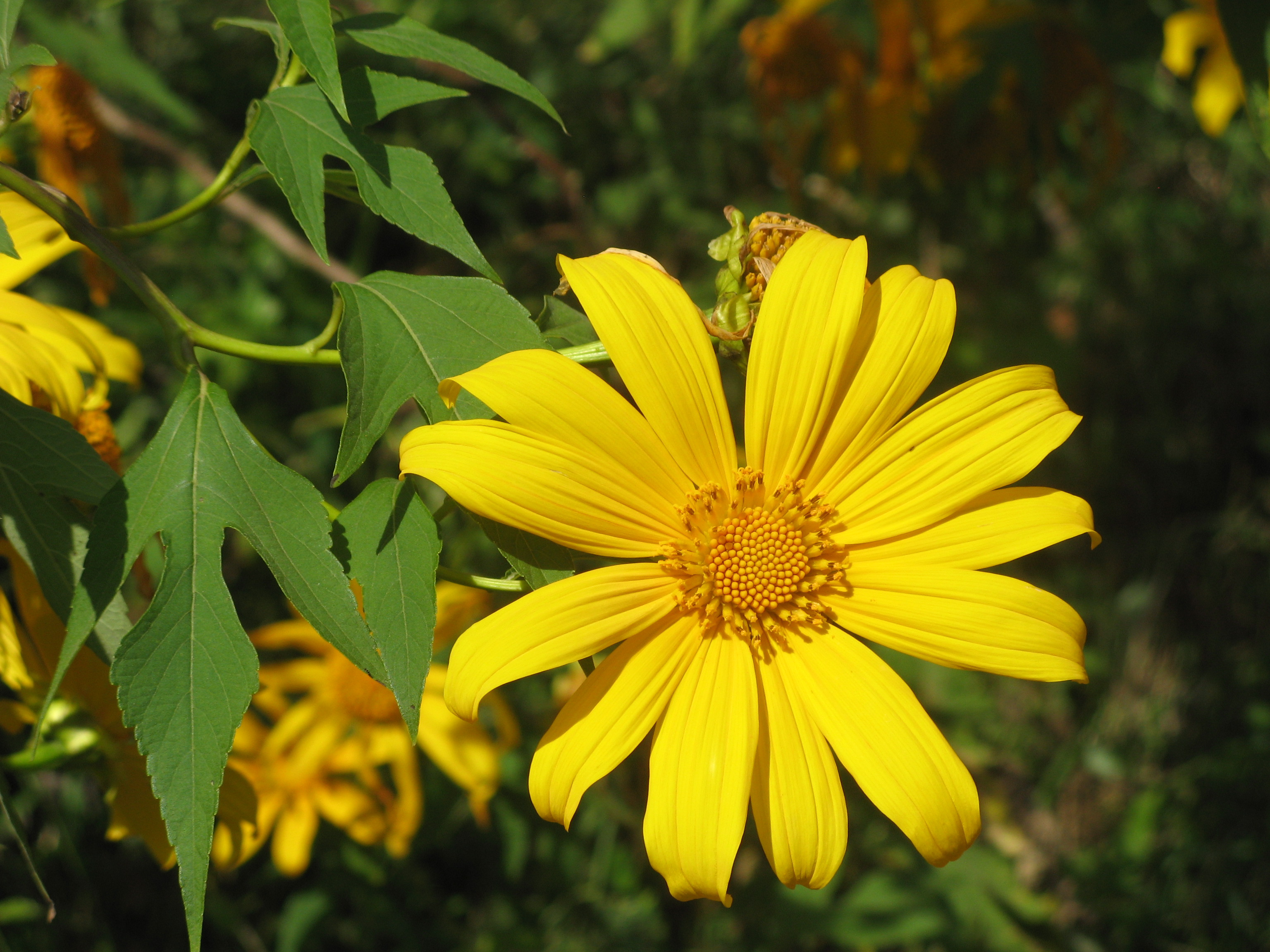 Tithonia diversifolia